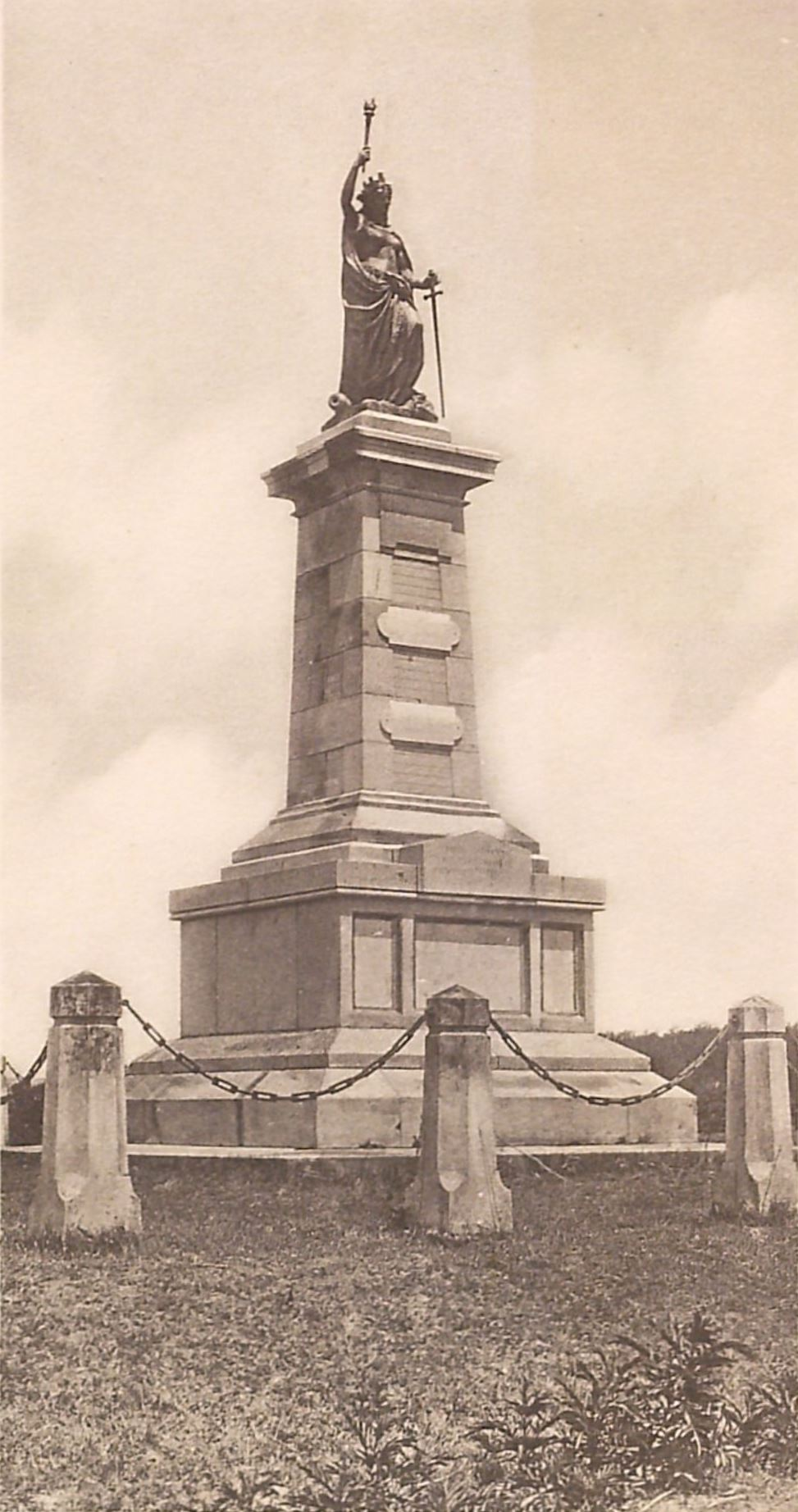 The commemorative monument of the War of Independence of Romania from 1877-1878 from Smârdan, Vidin (now Inovo, Vidin), destroyed in 1913.